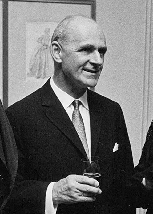 Vintage photo of Gustav von Schmoller at the Swedish-German Association's annual meeting